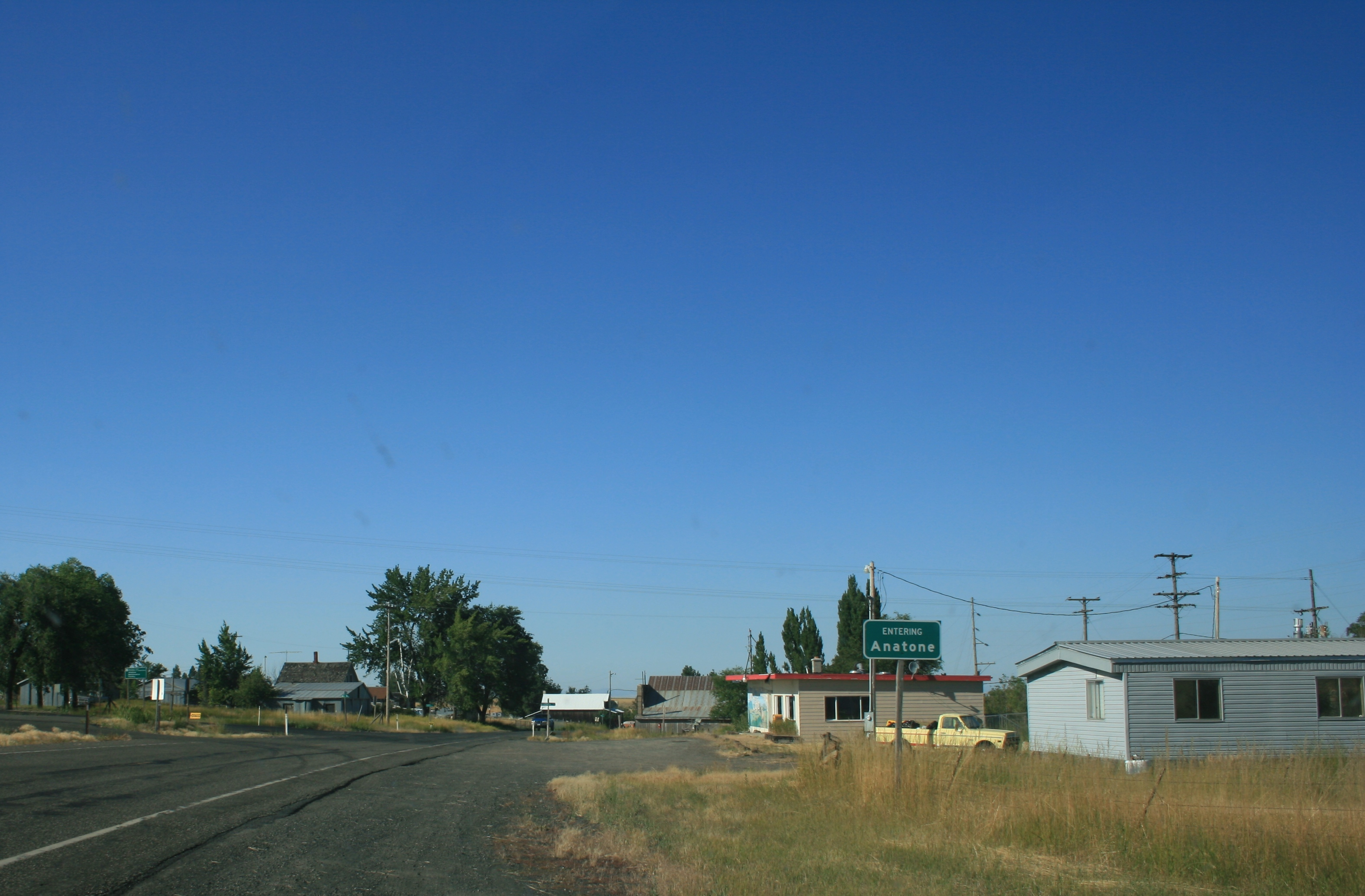 Photo of Anatone, Washington, which is an unincorporated community in Washington, United States.